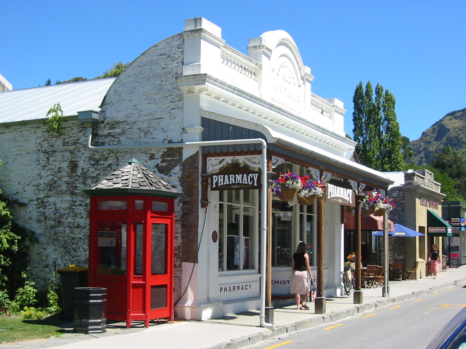 Arrowtown General Store / Pharamacy in Arrowtown. Arrowtown is located close to Queenstown, New Zealand. New Zealand Historic Places Trust Register number: 4370.